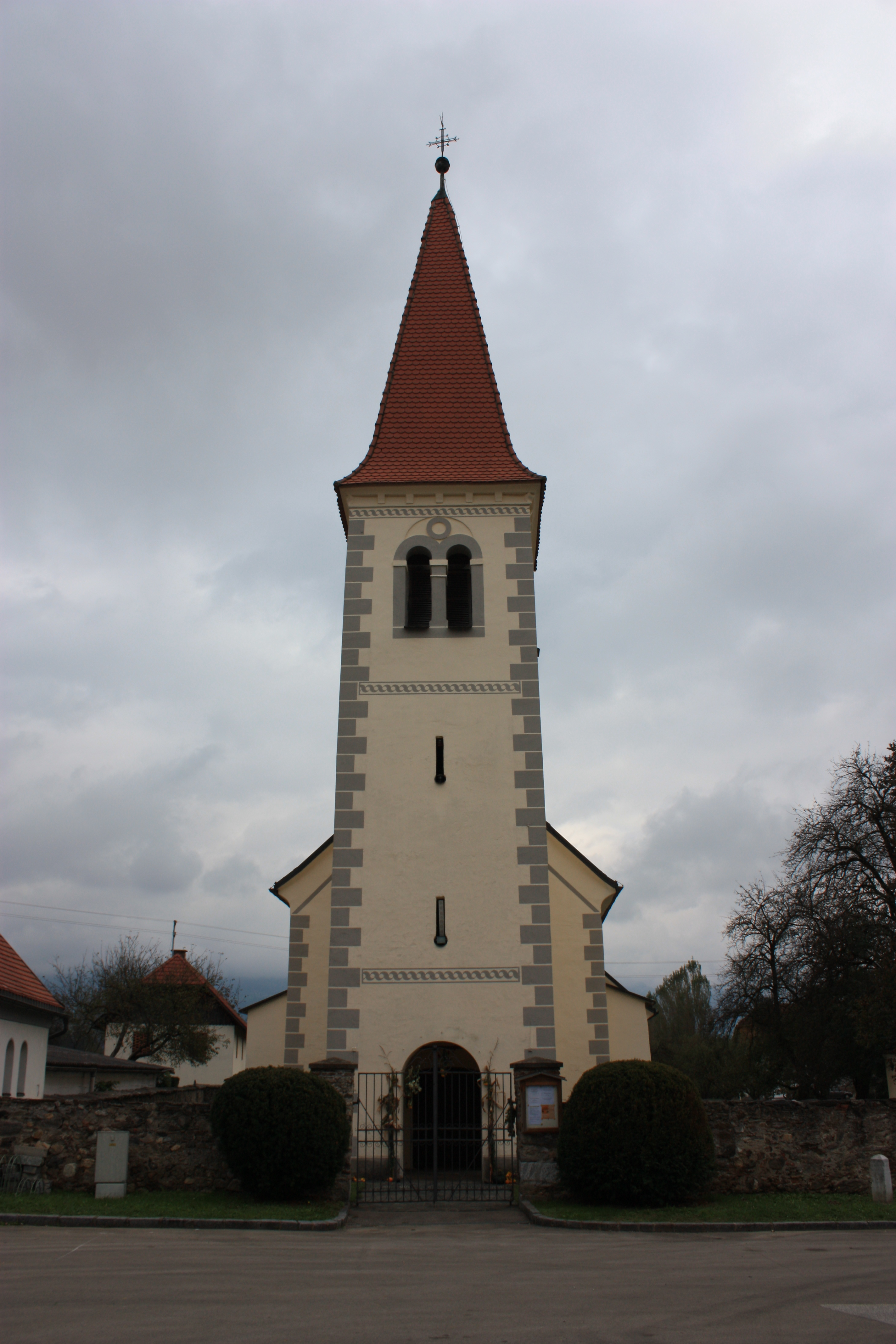 Subsidiary church Saint Martin Locality: Fischering Community:Sankt Andrä